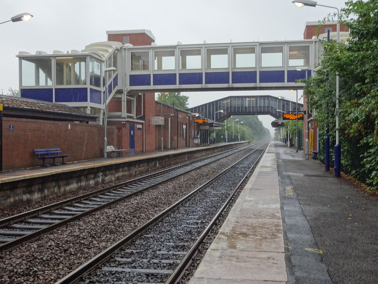 Birchwood railway station, Warrington Opened in 1981 by British Rail on the line from Manchester to Liverpool via Warrington. View east towards Glazebrook and Manchester, some 2 years after the old footbridge had been replaced by a new one. The old one was still in situ but closed off, when this image was taken.